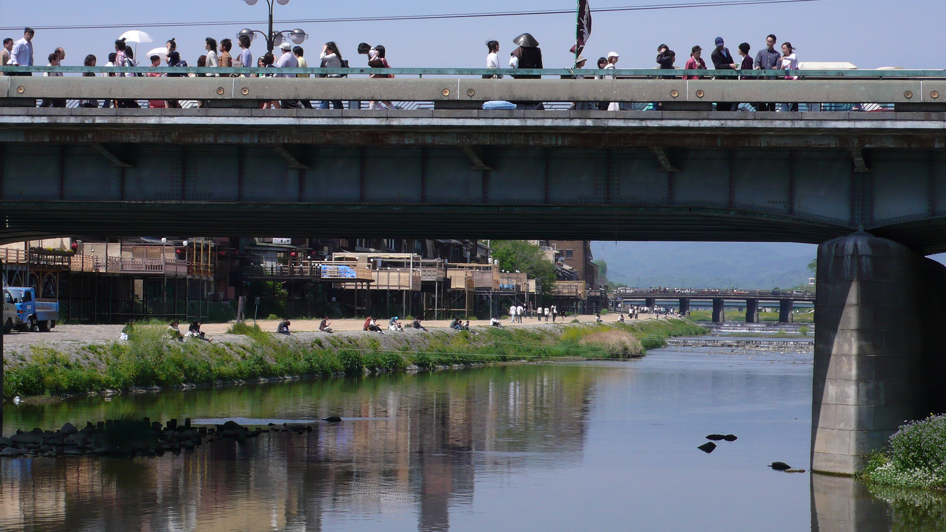 Shijo ohashi, Kyoto.